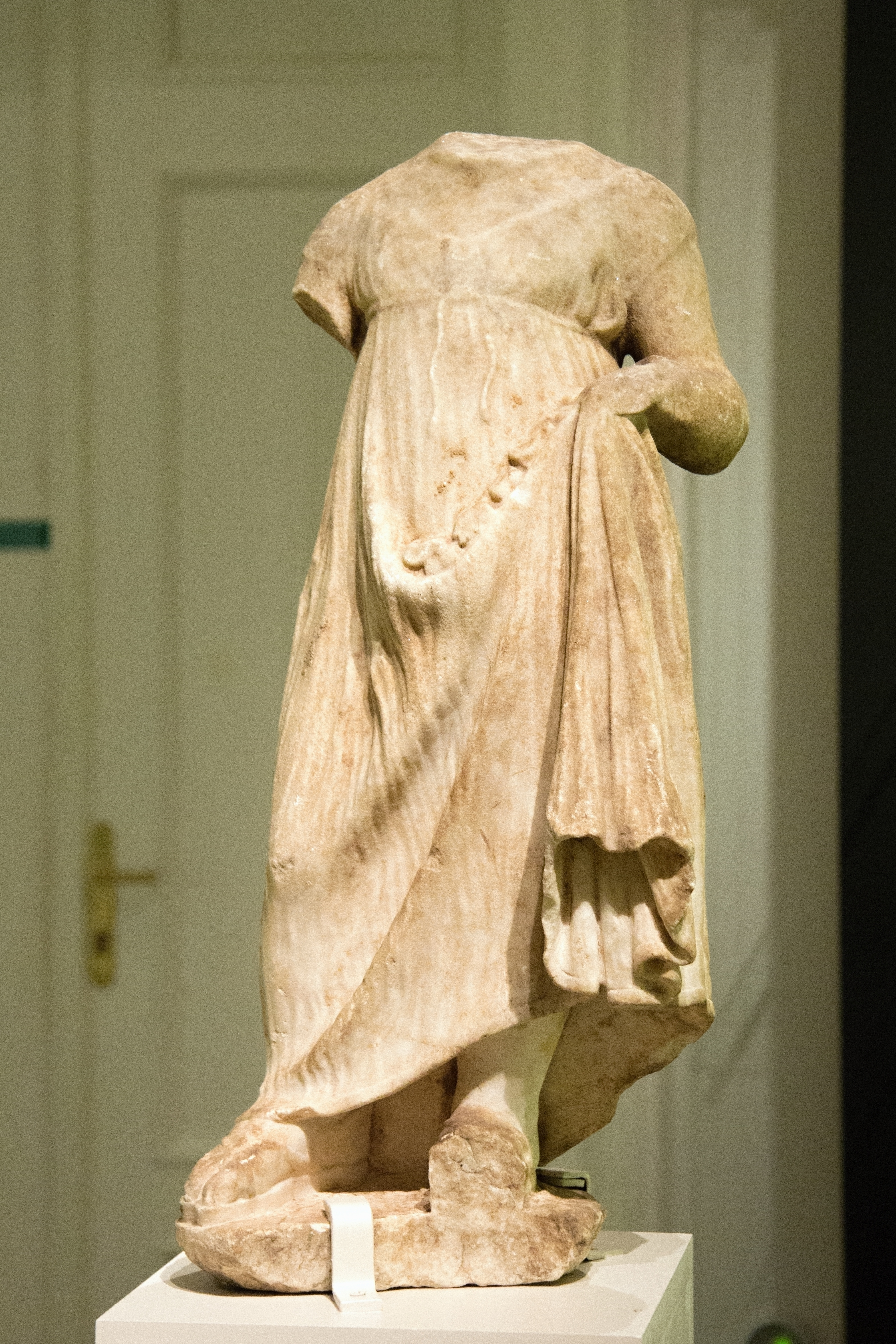 Torso of a little girl. The girl is dressed in a pleated chiton with astragals (bones for a children´s game) in its pleats. Marble. Hellenistic wokr from the 2nd century BC. NG Prague, Kinský Palace, NG P 578.